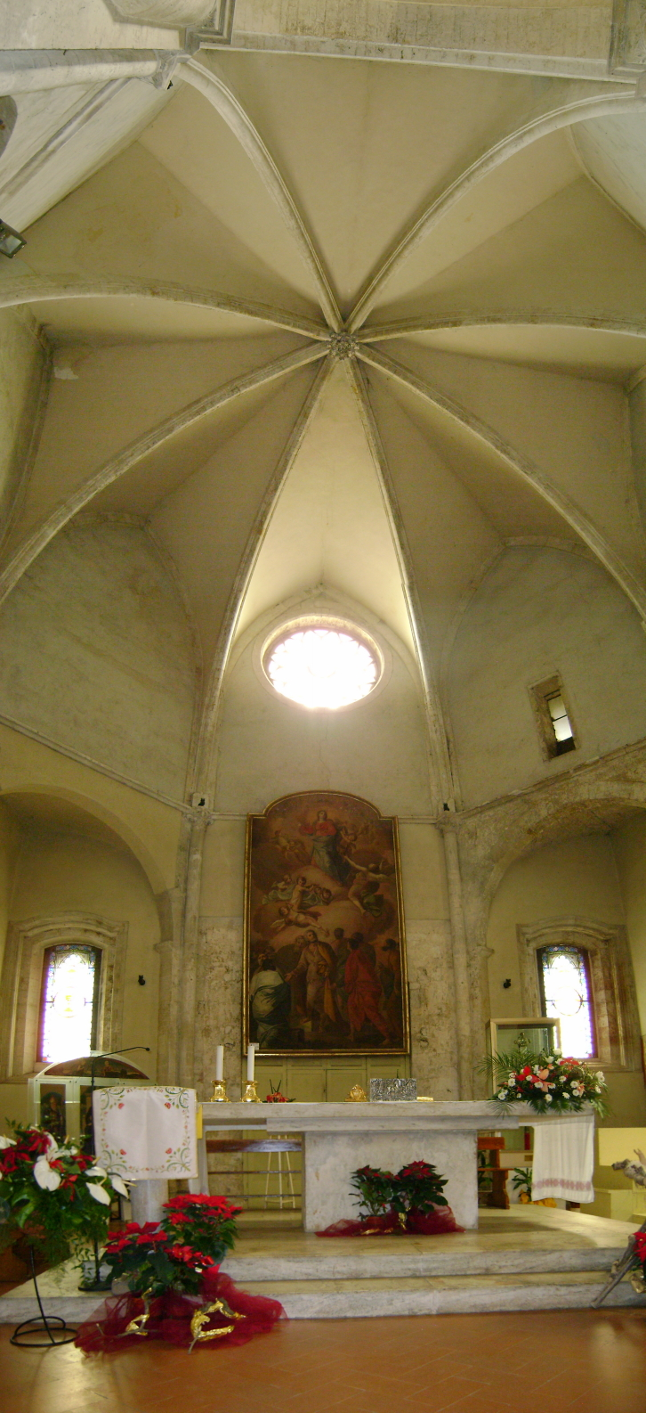 The presbytery of the church of Santa Maria Maggiore, Lanciano, province of Chieti, Abruzzo